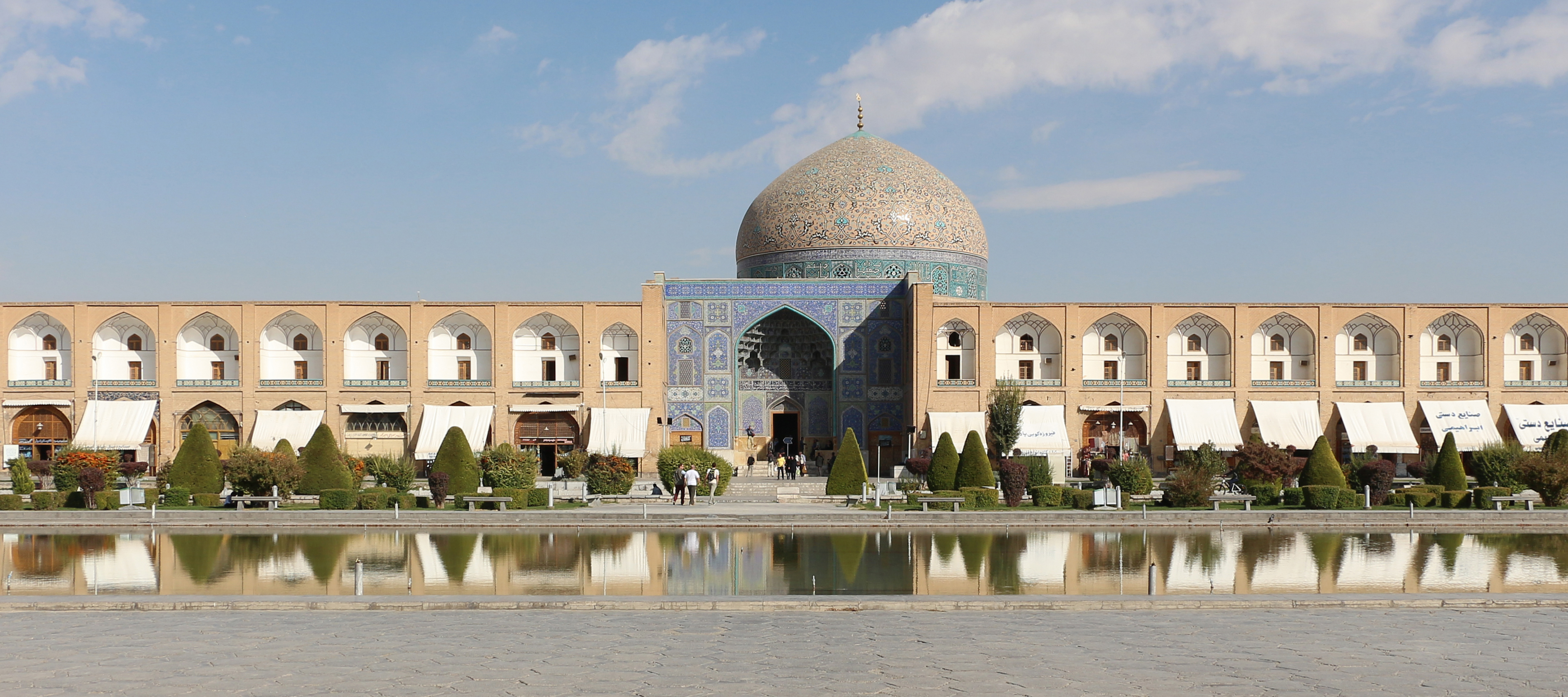 Sheikh Lotfollah Mosque, Isfahan, Iran